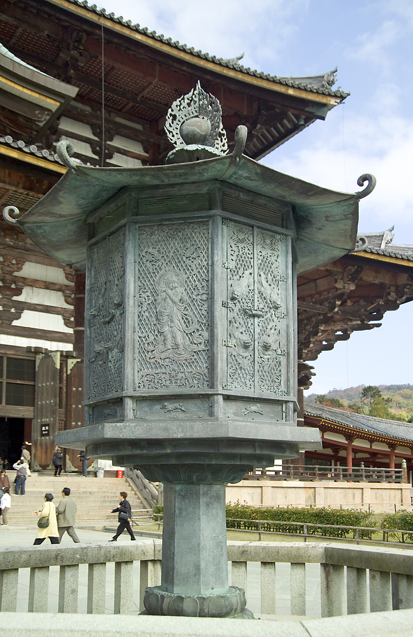 This bronze lantern stands in front of the Tōdai-ji in Nara, Japan. I took the photo and contribute my rights in it to the public domain; organizations and individuals retain rights to images in it. Same exposure as Image:NaraTodaijiBronzeLantern0202.jpg NaraTodaijiL0202.jpg Image:NaraTodaijiBronzeLantern0202.jpg